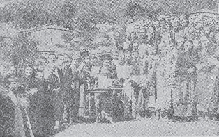 Starting the building of bulgarian school in KRushevo